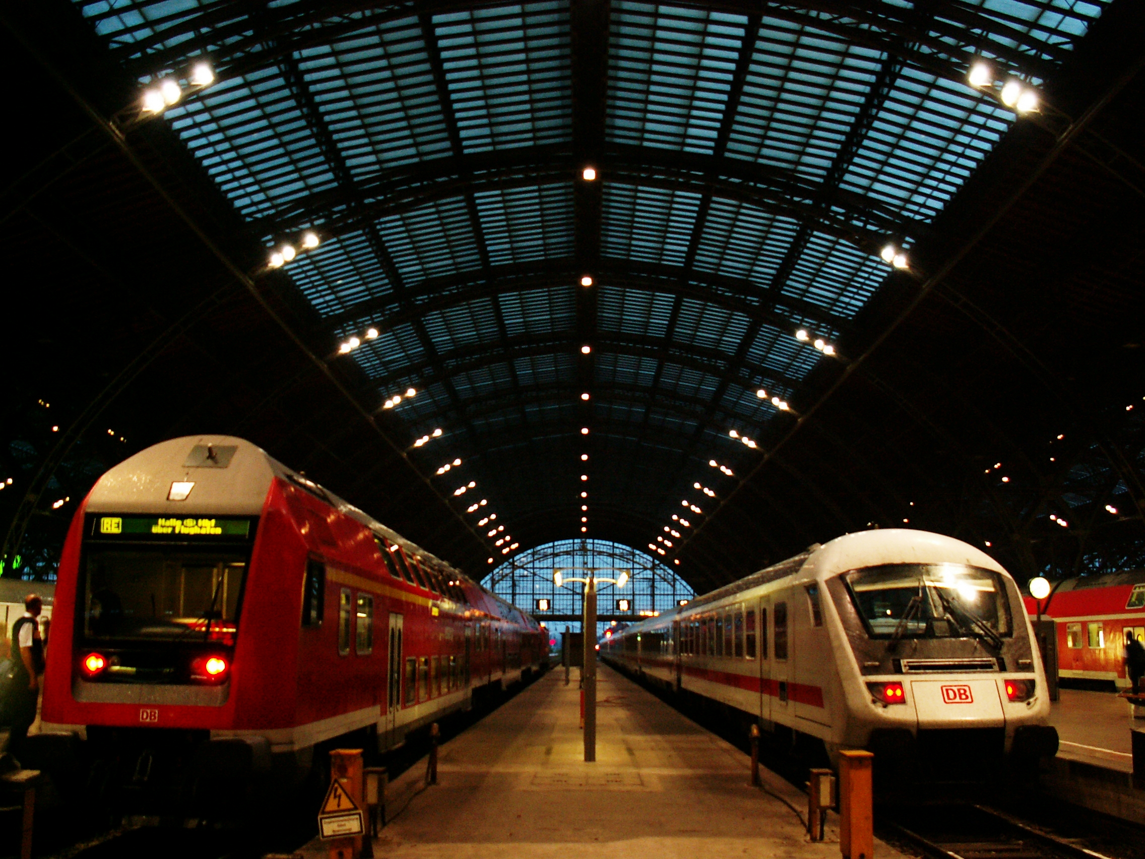 Hauptbanhof (main train station)